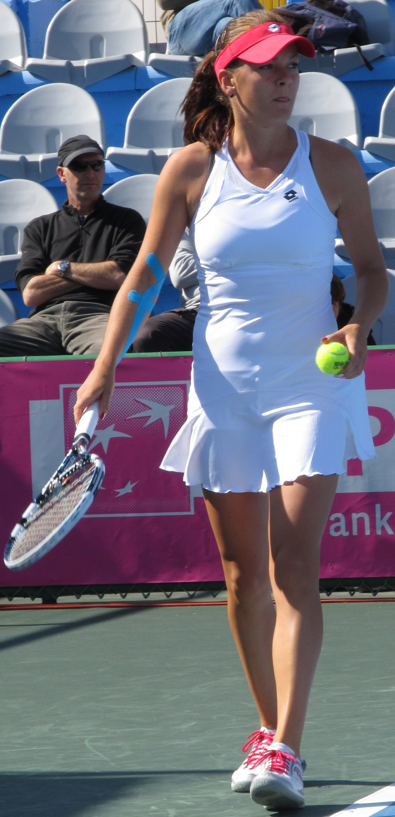 The tennis player Agnieszka Radwańska of Poland during her match against Petra Martić of Croatia in the 2nd day of Fed Cup Group I 2012 Europe/ Africa in Eilat, Israel.